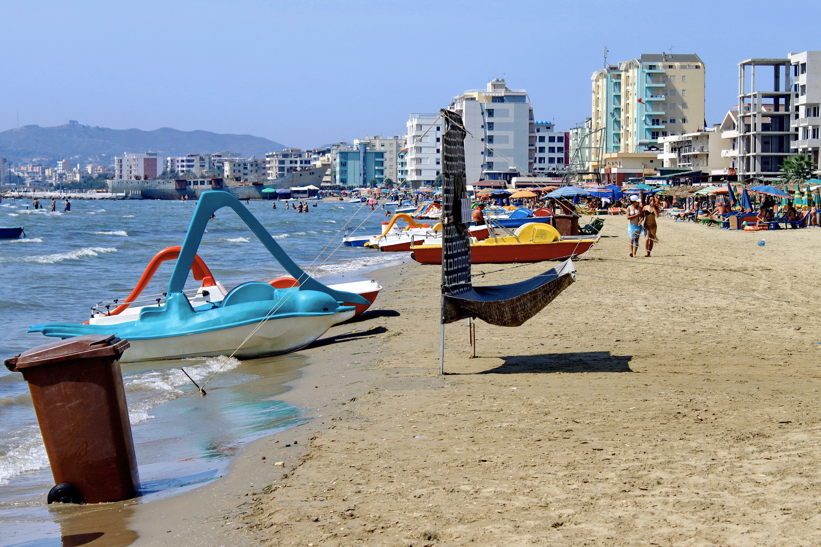 Beach of DurrësShqip: Plazhi në Durrës